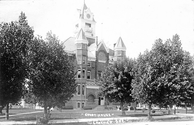 Postcard photograph of the old Lake County Courthouse in Lakeview, Oregon